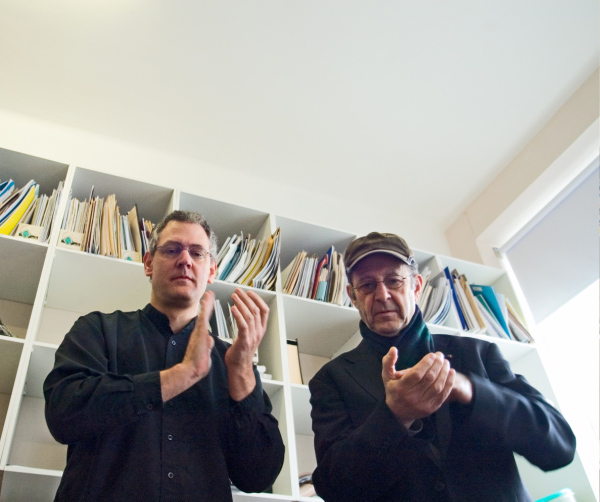 American composer Steve Reich performing clapping Music, 2006